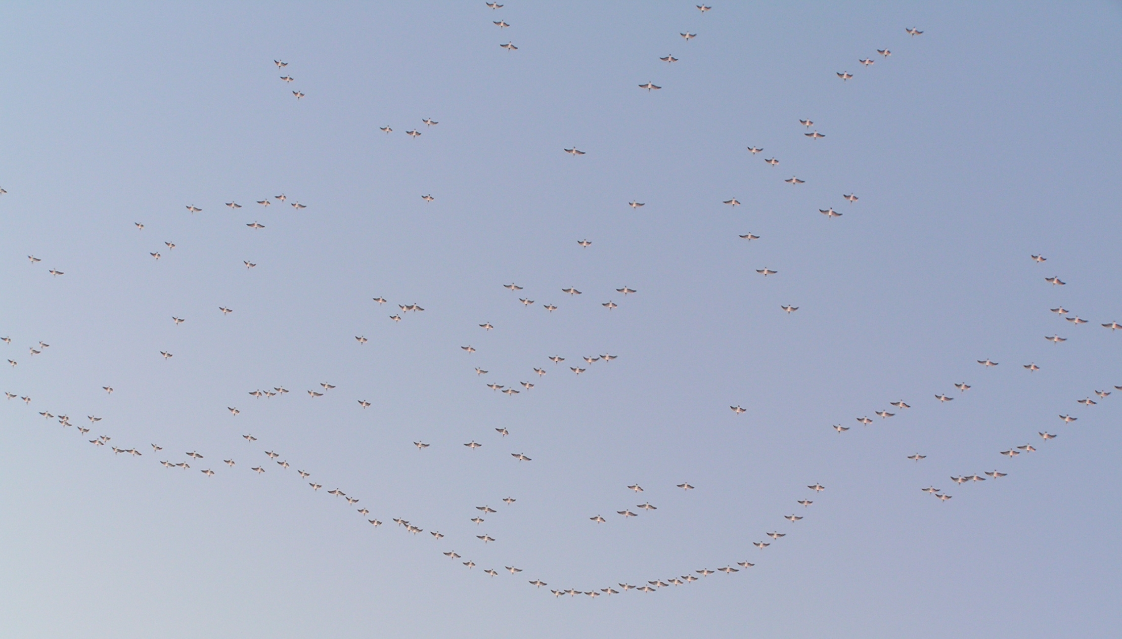 Branta leucopsis on the East Atlantic Flyway of coastal birds. Author: M.Buschmann Location: german waddensea